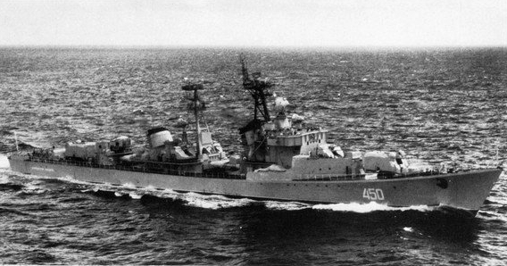 The Soviet Project 56 Spokoinyy-class destroyer Vyderzhannyy (NATO reporting code "Kotlin"-class) underway. The photo was taken from the U.S. Navy aircraft carrier USS Hancock (CVA-19) during her deployment to the Western Pacific and Vietnam from 8 May 1973 to 8 January 1974. Note: since 1967 Vyderzhannyy (Выдержанный) was renamed to Dalnyevostochnyy Komsomolets (Дальневосточный Комсомолец)